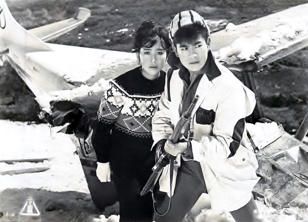 Still life photography of "'Wandering Detective: Tragedy in Red Valley'" (1961)